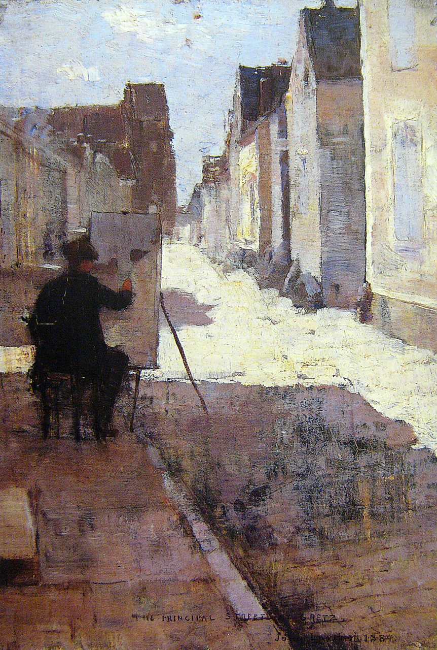 The Principal Street at Grez